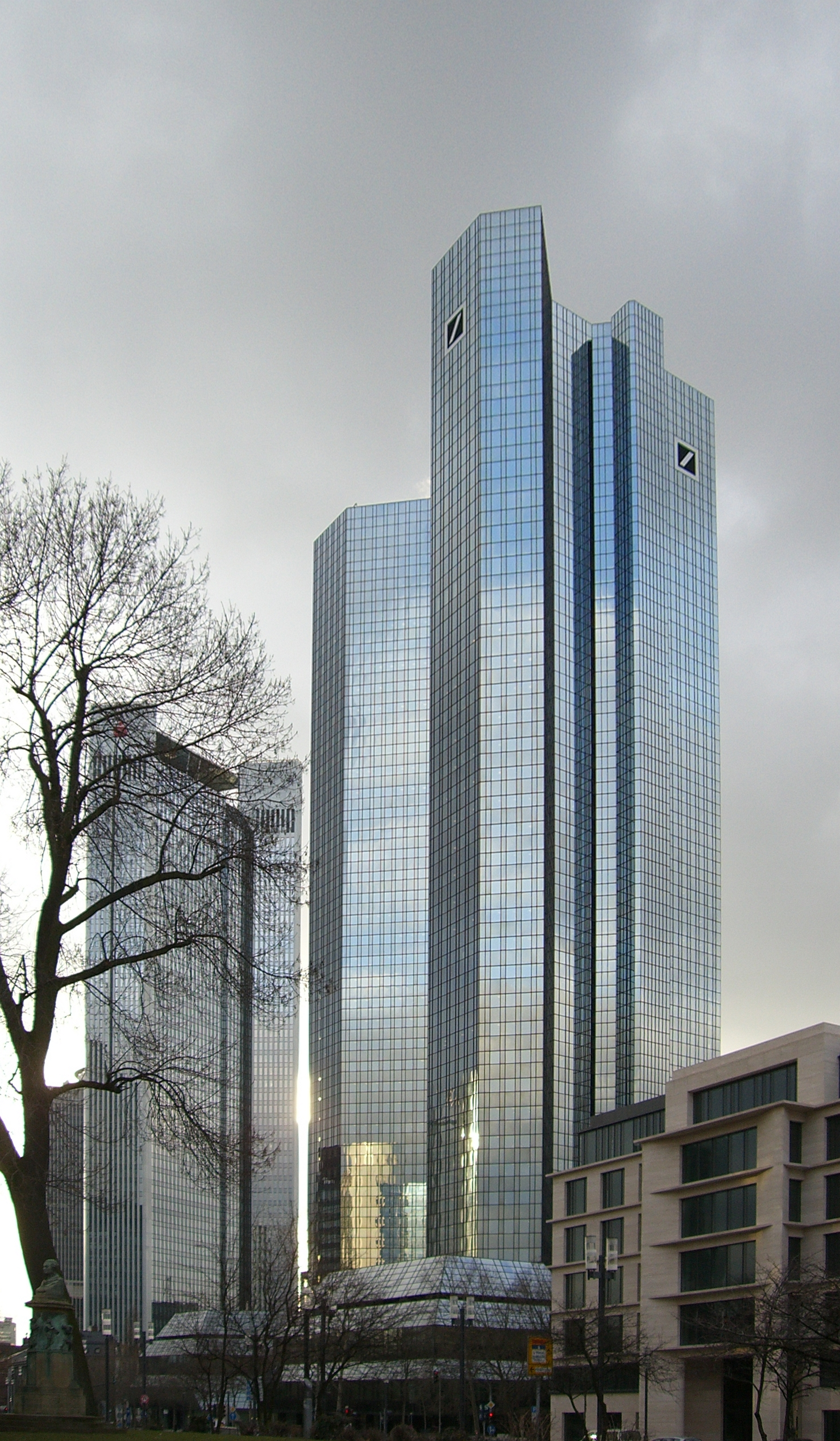 Frankfurt, Germany